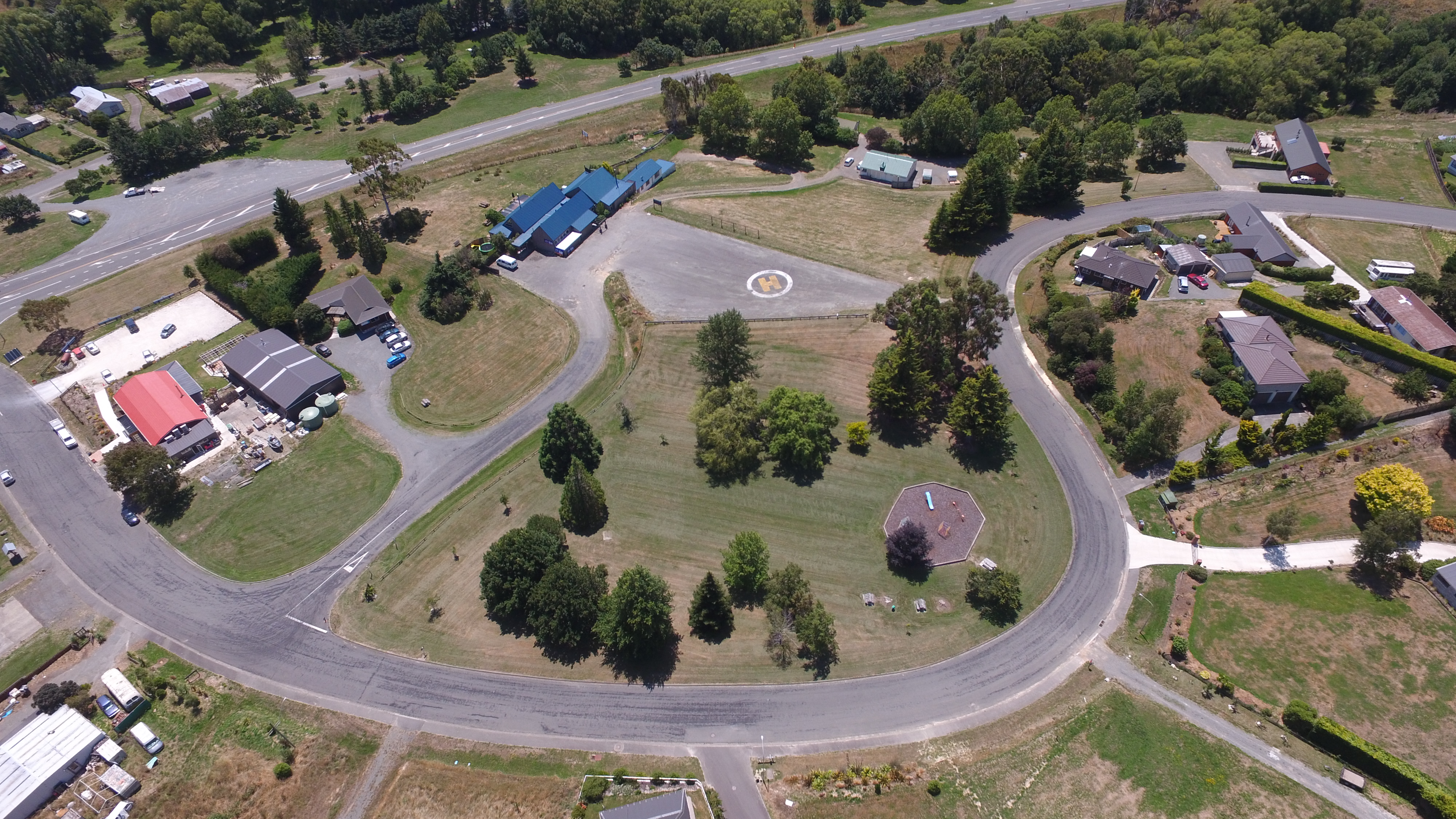 showing the Tavern Reserve central image with cafe to left and pub above adjacent Helipad